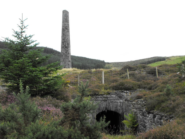 Cwmsymlog Mine Lead and silver mine. Chimney was for a Cornish steem engine to pump out water.